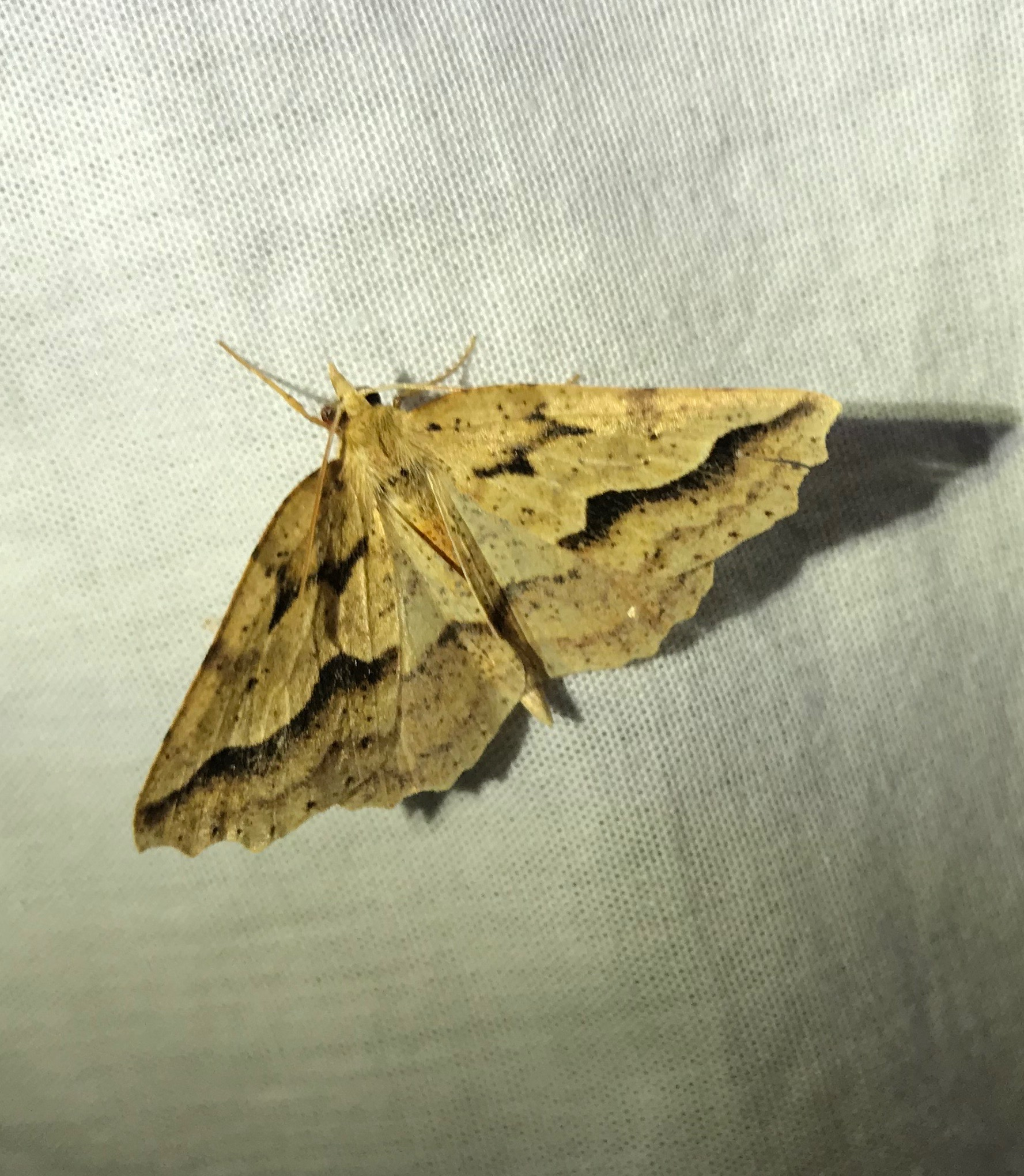 The oblique-waved fern looper moth Ischalis variabilis light-trapped in Otari-Wilton Bush, Wellington, New Zealand